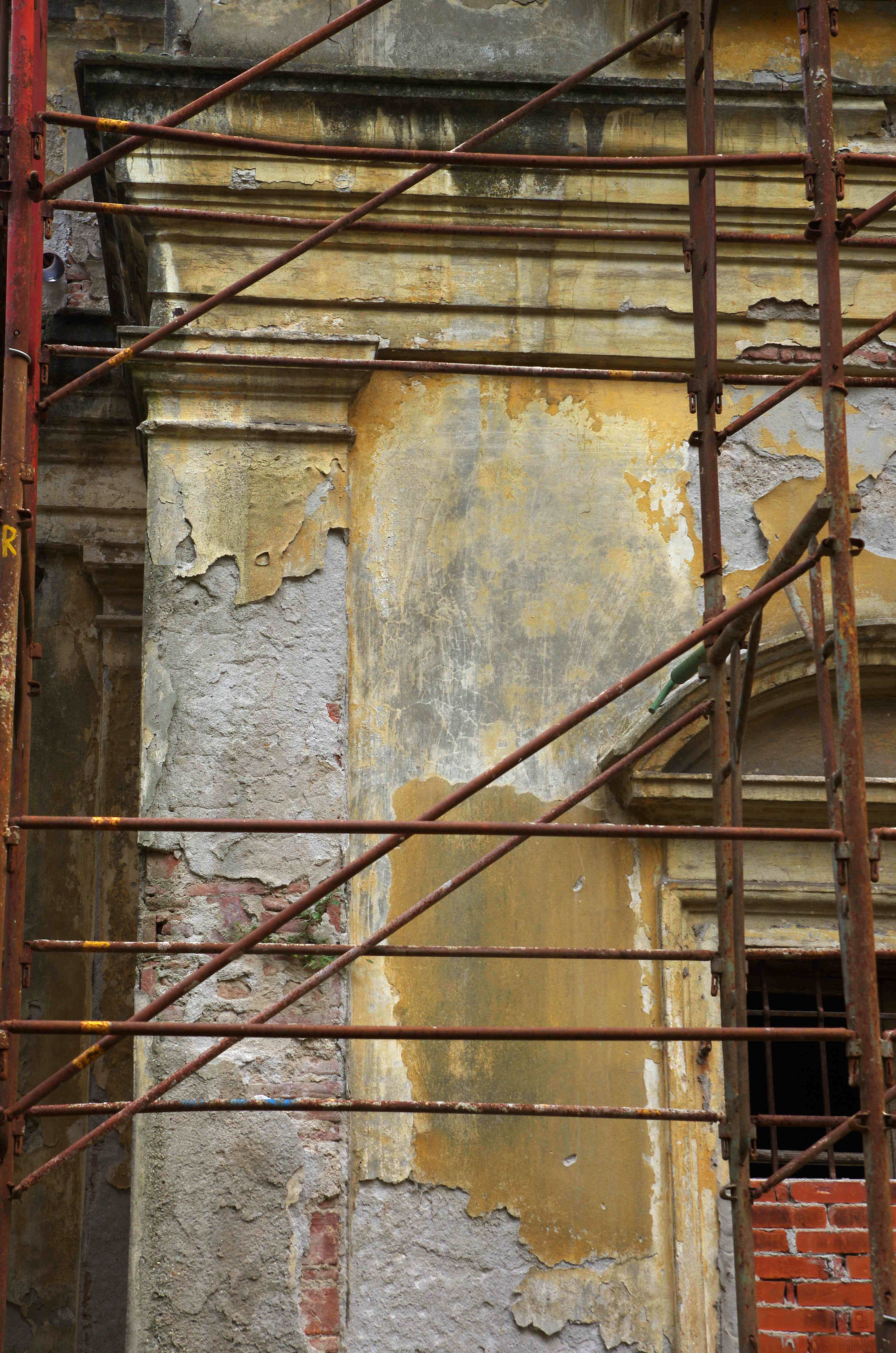 Typical example of mismanagement of the Italian cultural heritage, now being restored after decades of neglect